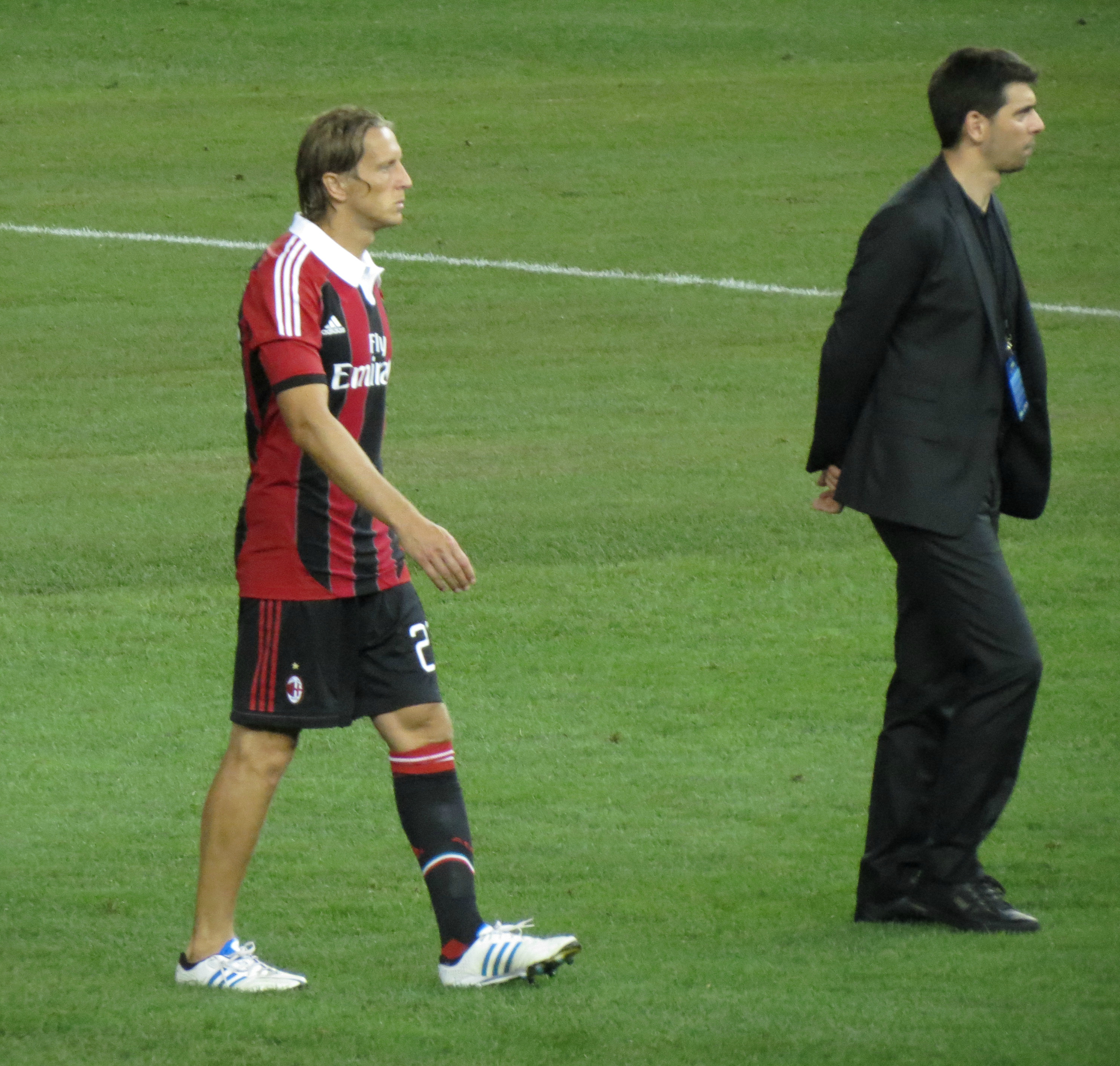 Massimo Ambrosini of AC Milan in August 2012.